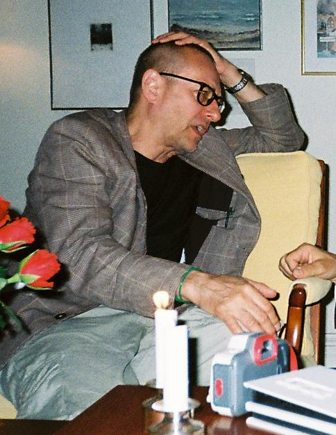 Swedish photographer Björn Dawidson a.k.a Dawid, as released by image creator RistessonPlace: Karlavägen 66, Stockholm, Sweden